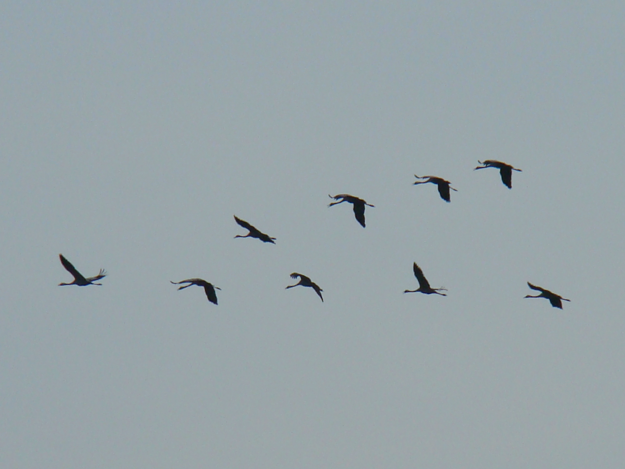 Photo of the Common Cranes (Grus grus) in Novaraistis nature reserve, Lithuania.